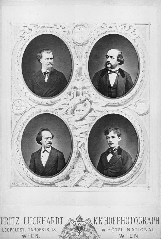 The string quartet headed by Joseph Hellmesberger, Sr. (top right); also pictured his son Joseph Hellmesberger, Jr. (bottom right), Heinrich Röver (top left) and Sigismund Bachrich (bottom left)